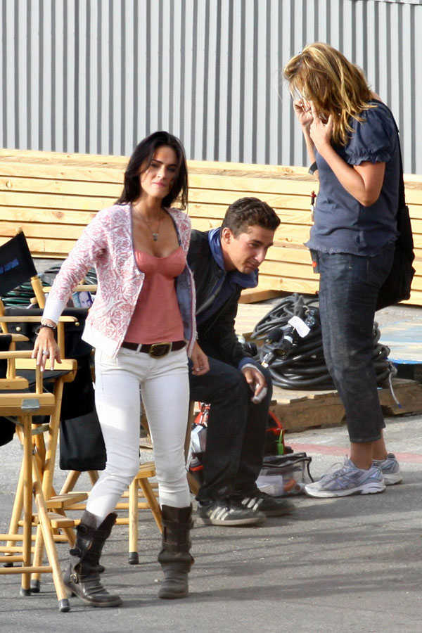 Megan Fox, Shia LaBeouf on the Transformers 2.